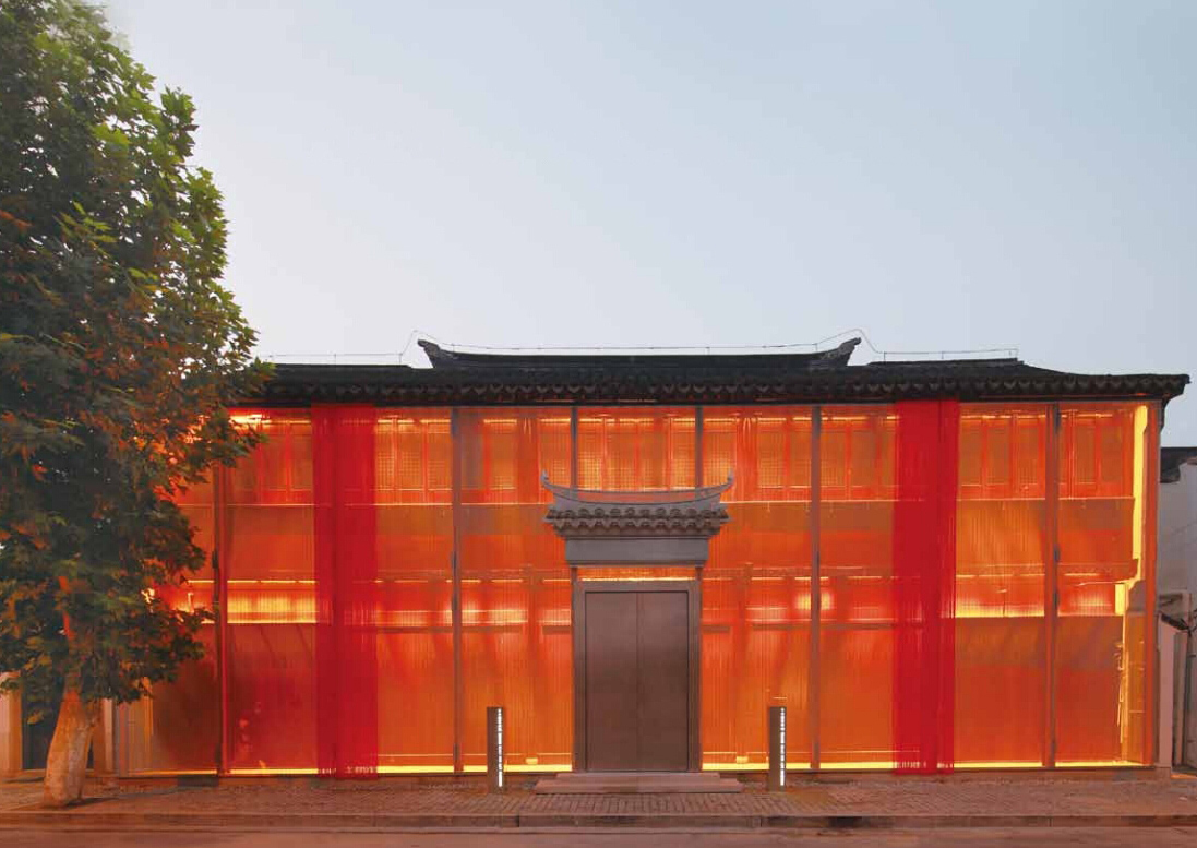 The front of the museum exterior.